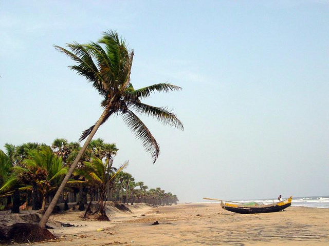 Antarvedi Beach view, Antarvedi, Sakhinetipalli Taluk, East Godavari, Andhra Pradesh